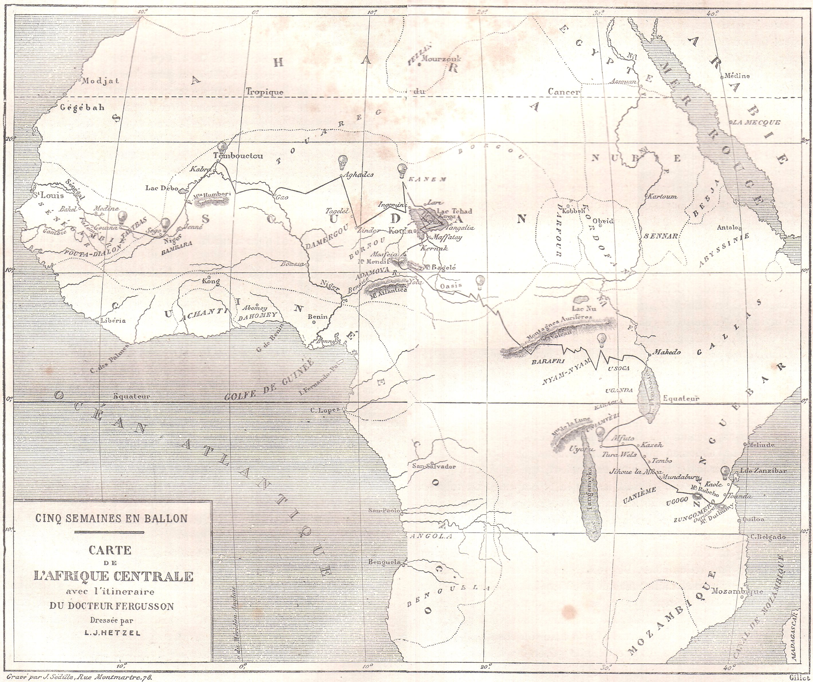 Map of novel Five Weeks in a Balloon.